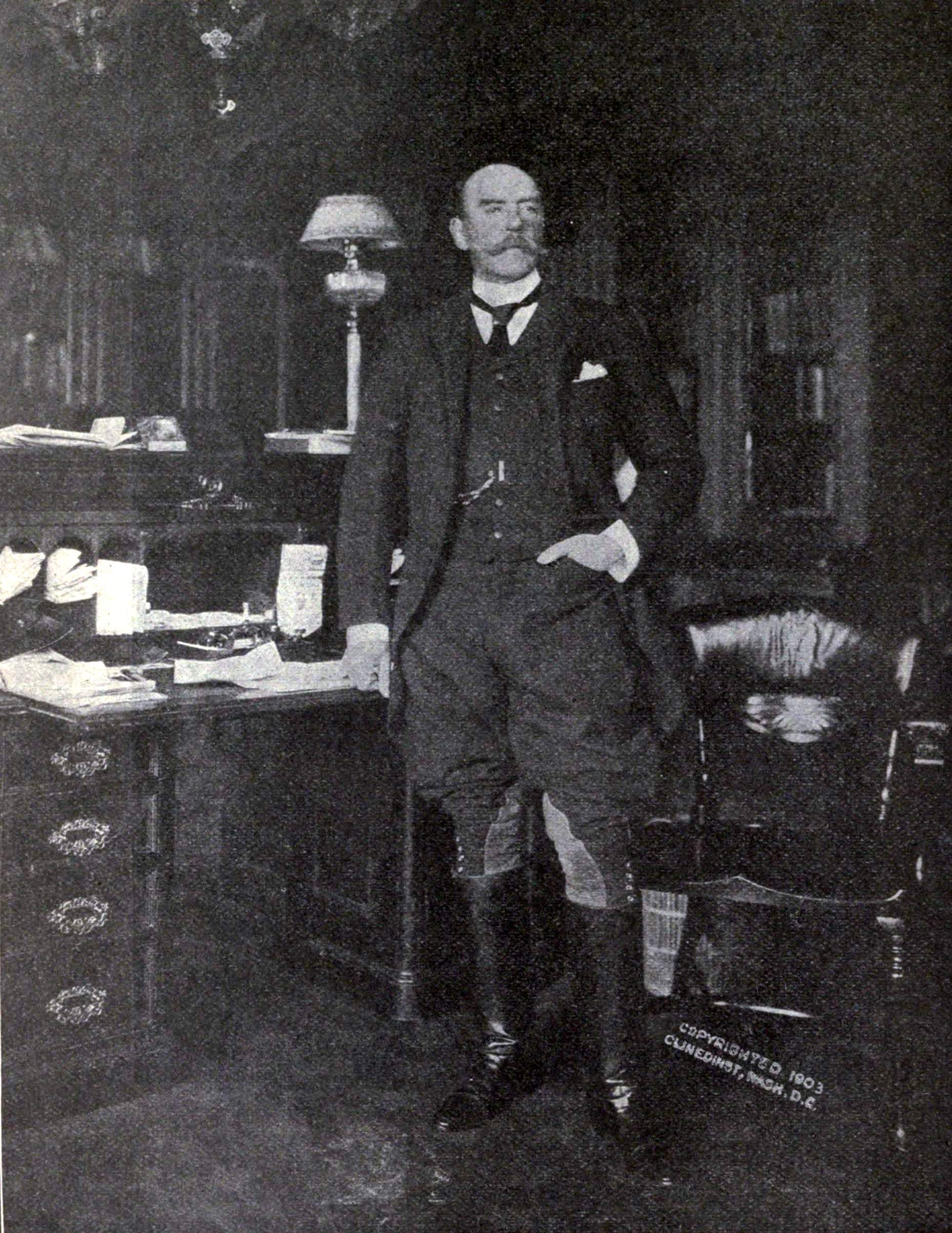 Mortimer Durand, 1903